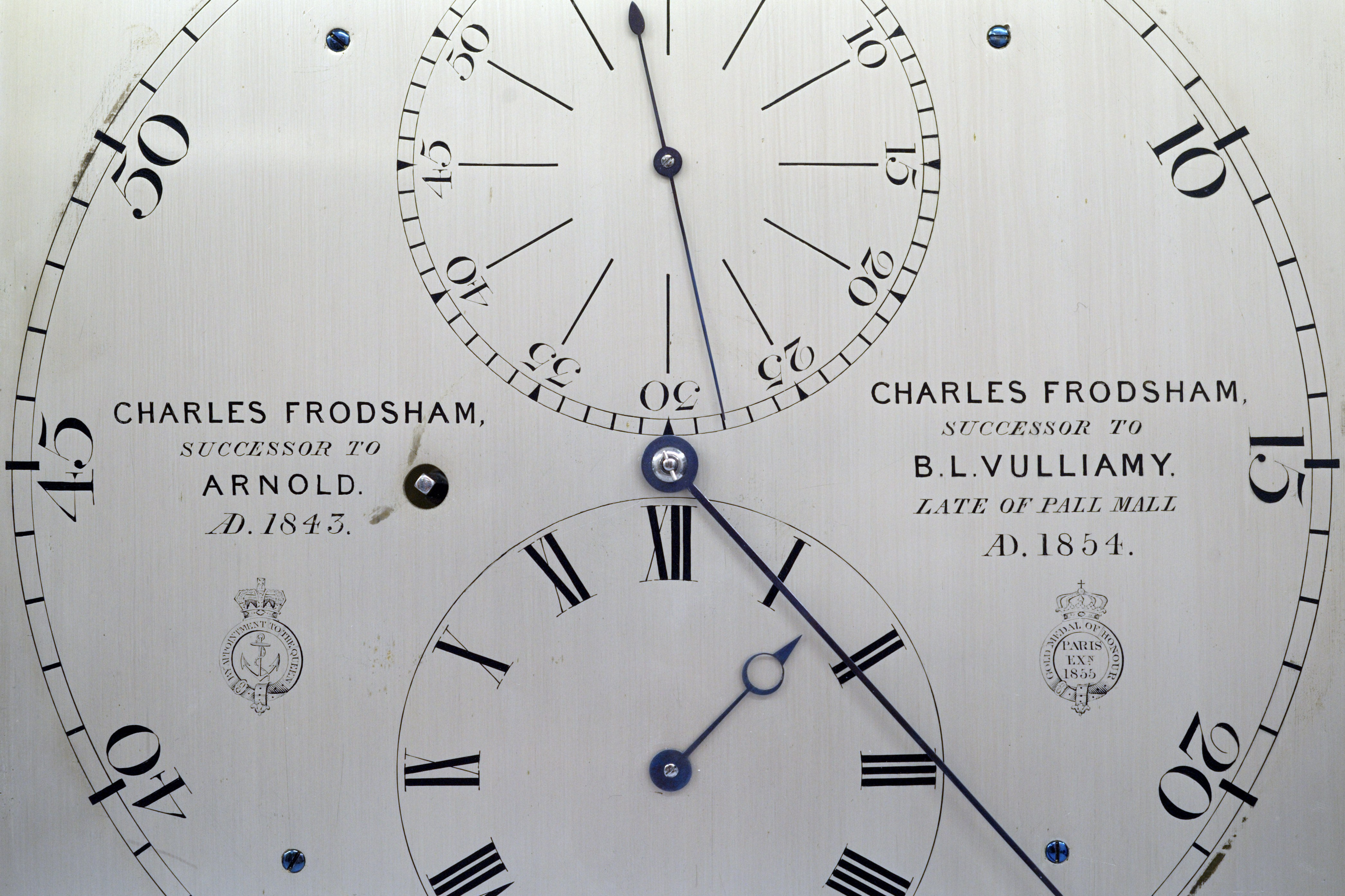 Charles Frodsham regulator dial, signed as successors to Arnold and Vulliamy